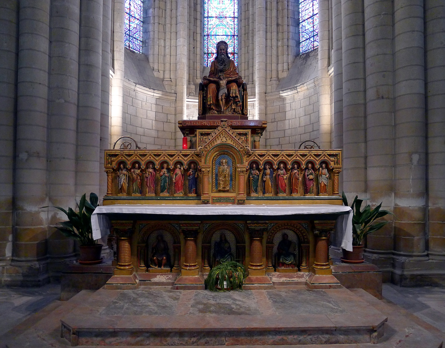 Trinité church (Angers, France)